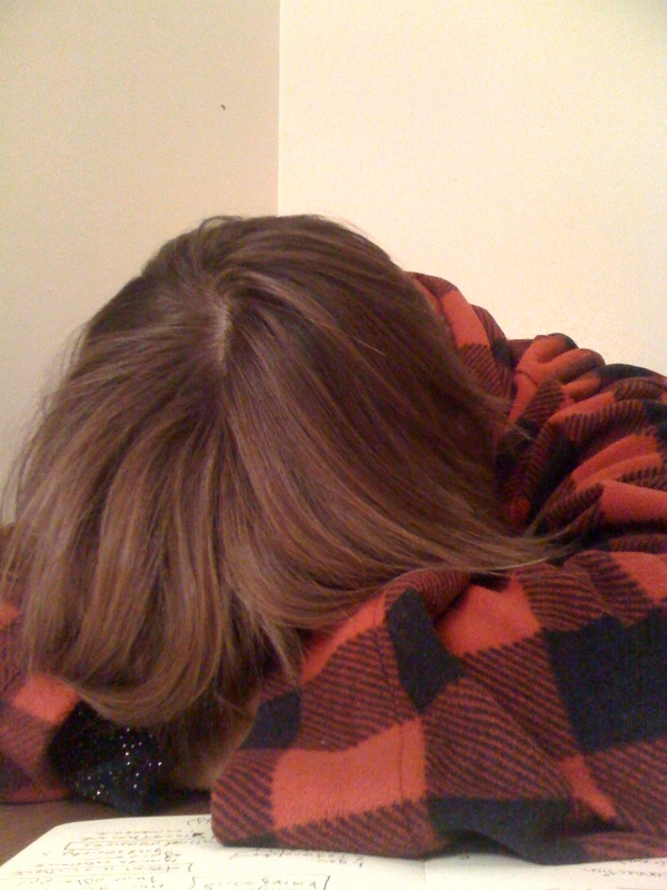 Posted via email from jessicamullen's posterous